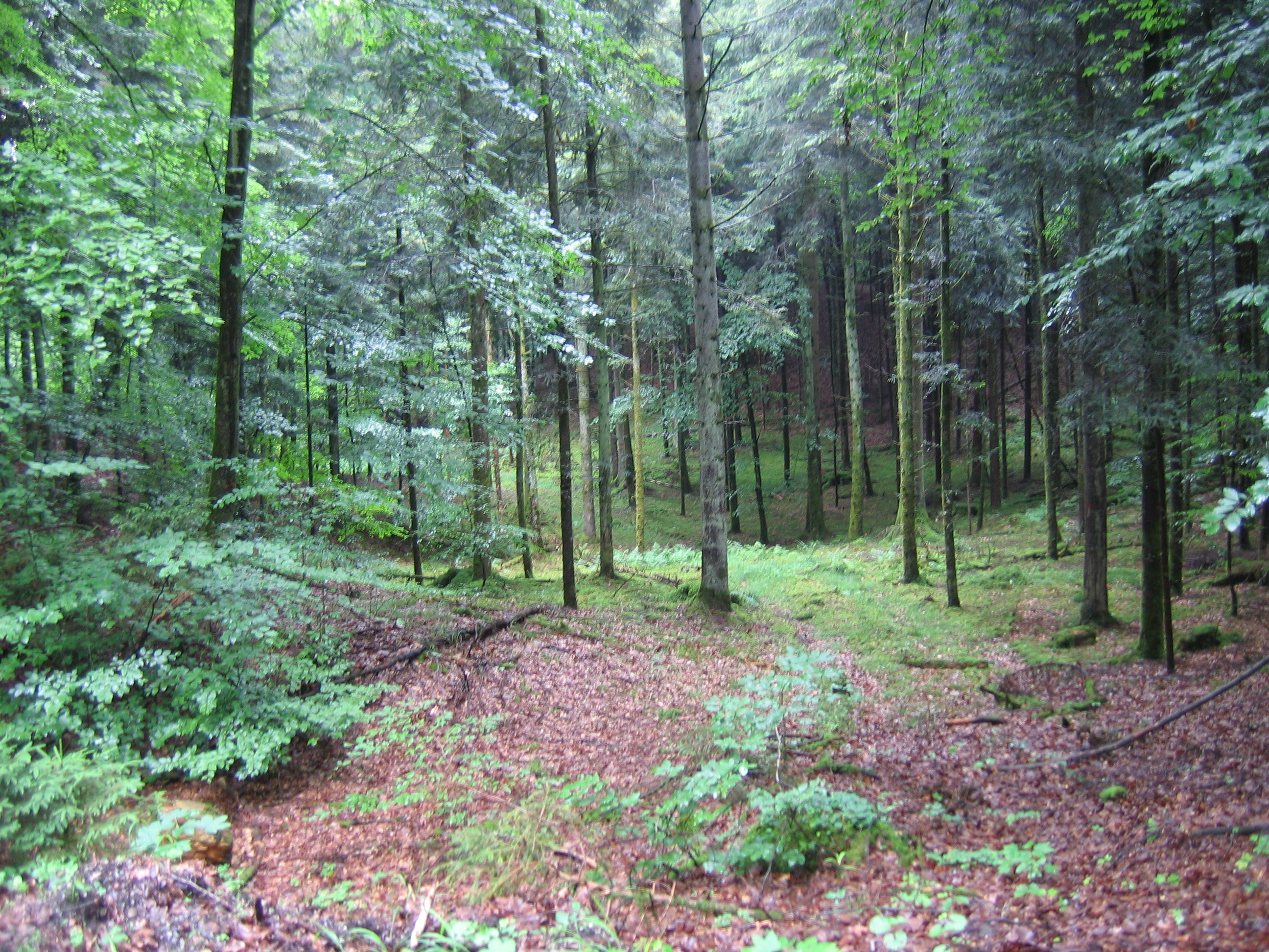 Germany - Baden-Württemberg - Bodenseekreis - Tettnang: kettle hole (landform)